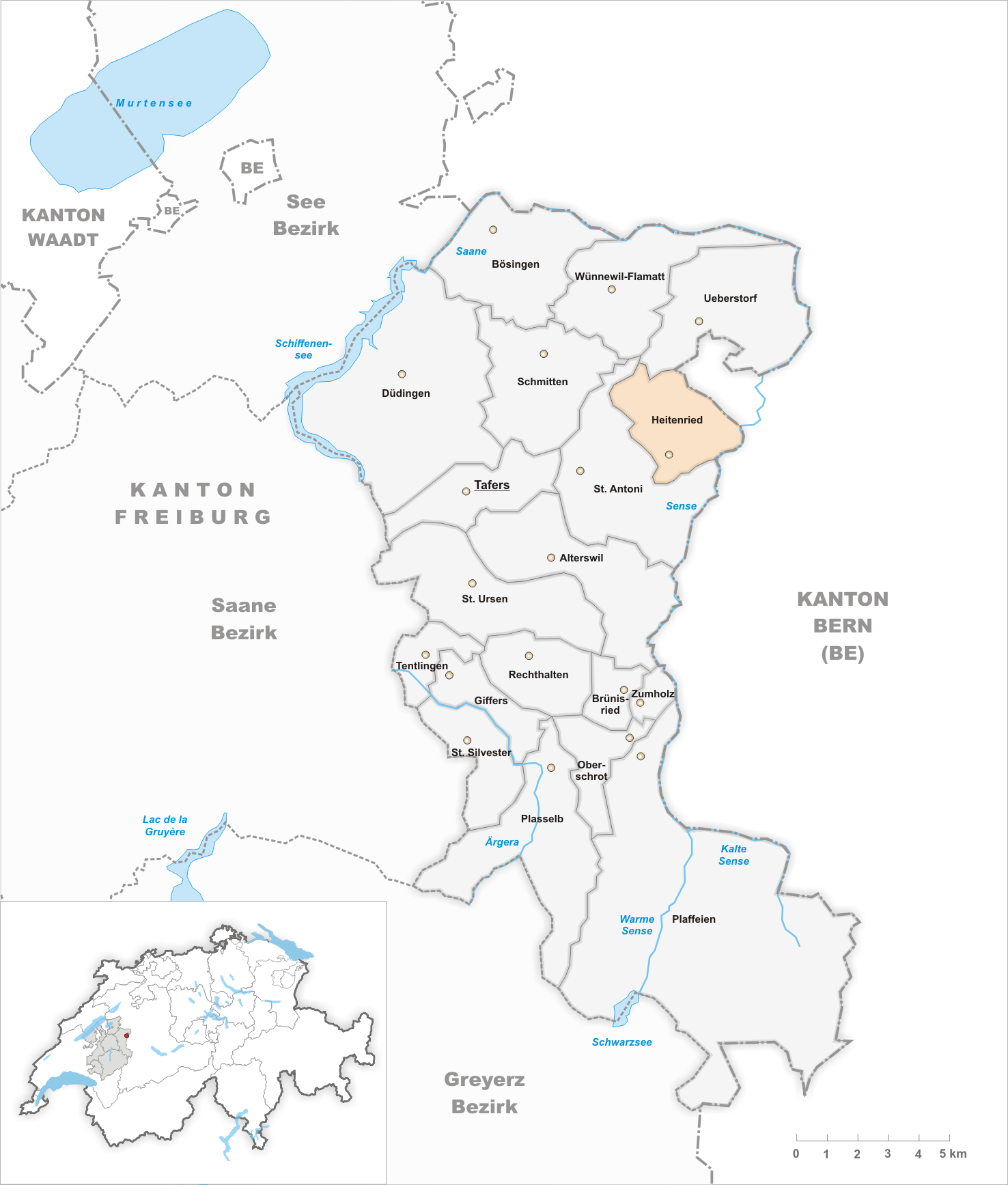 Municipality Heitenried